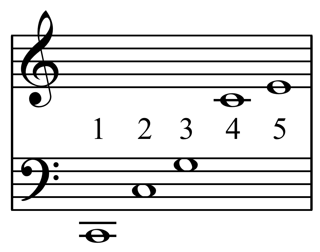 Harmonic series, partials 1-5 numbered